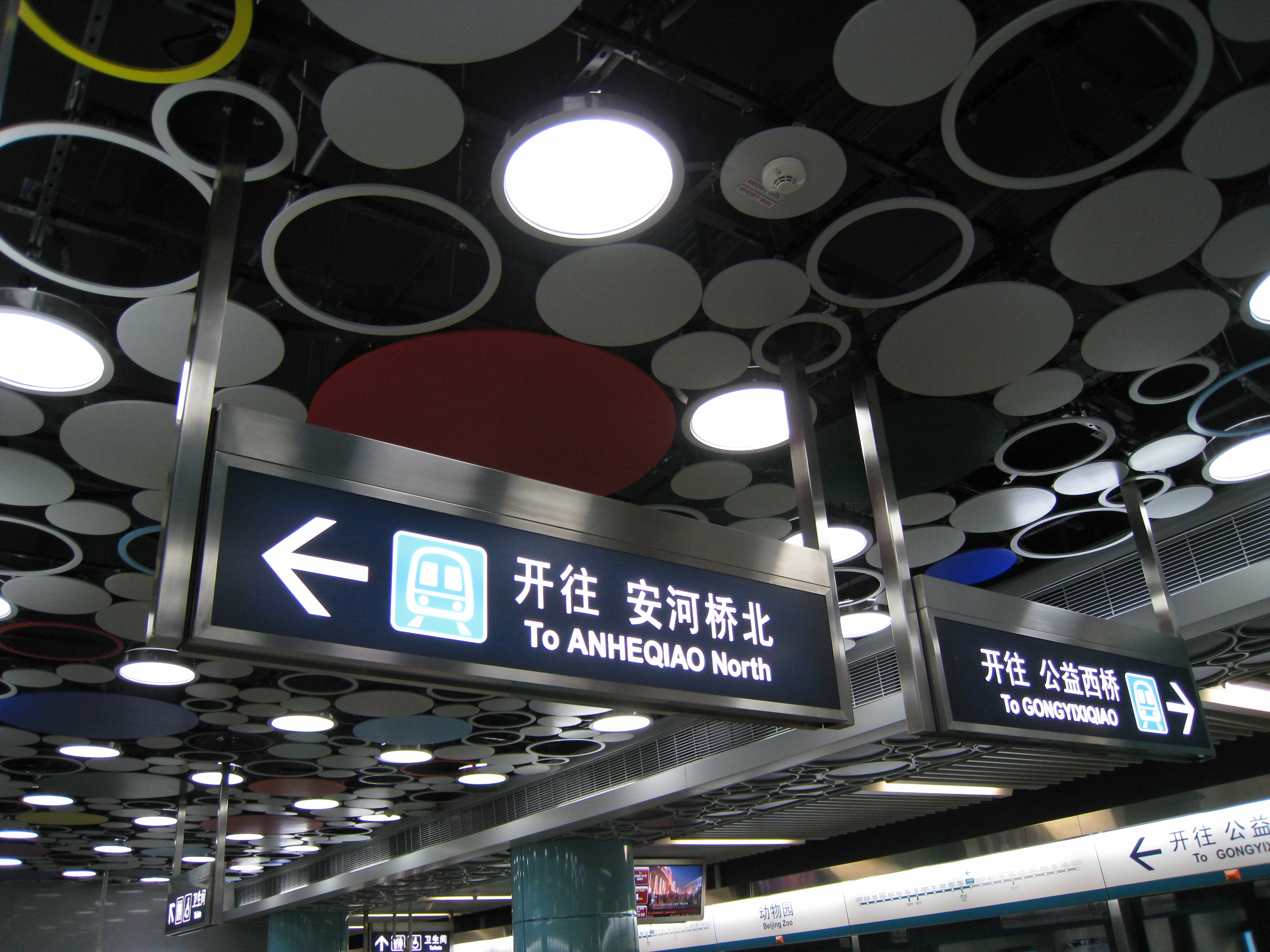 The ceiling of Beijing Zoo station of Line 4, Beijing Subway. The circles represents balloons.